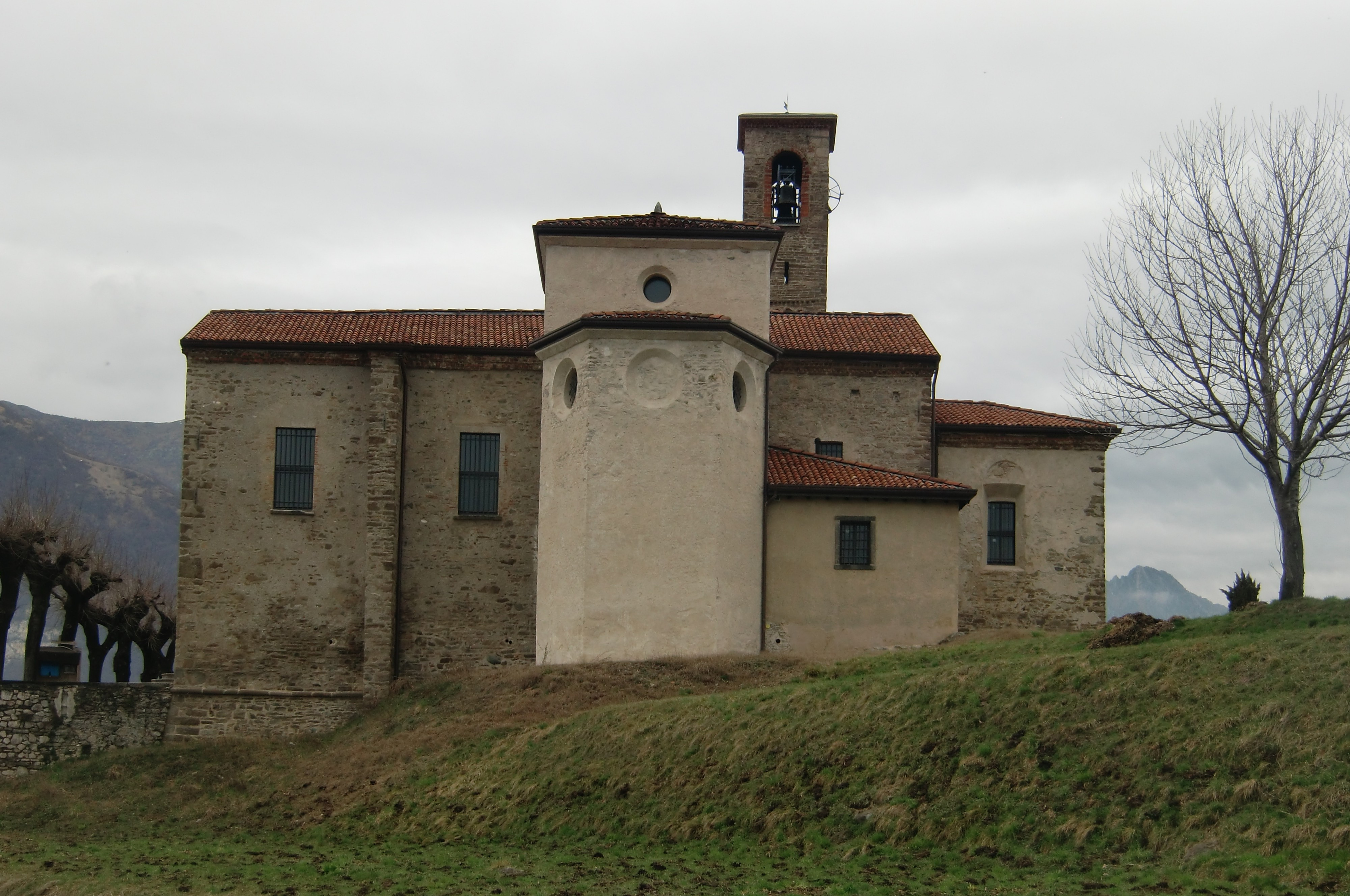 Saint George church, Annone di Brianza (Italy)